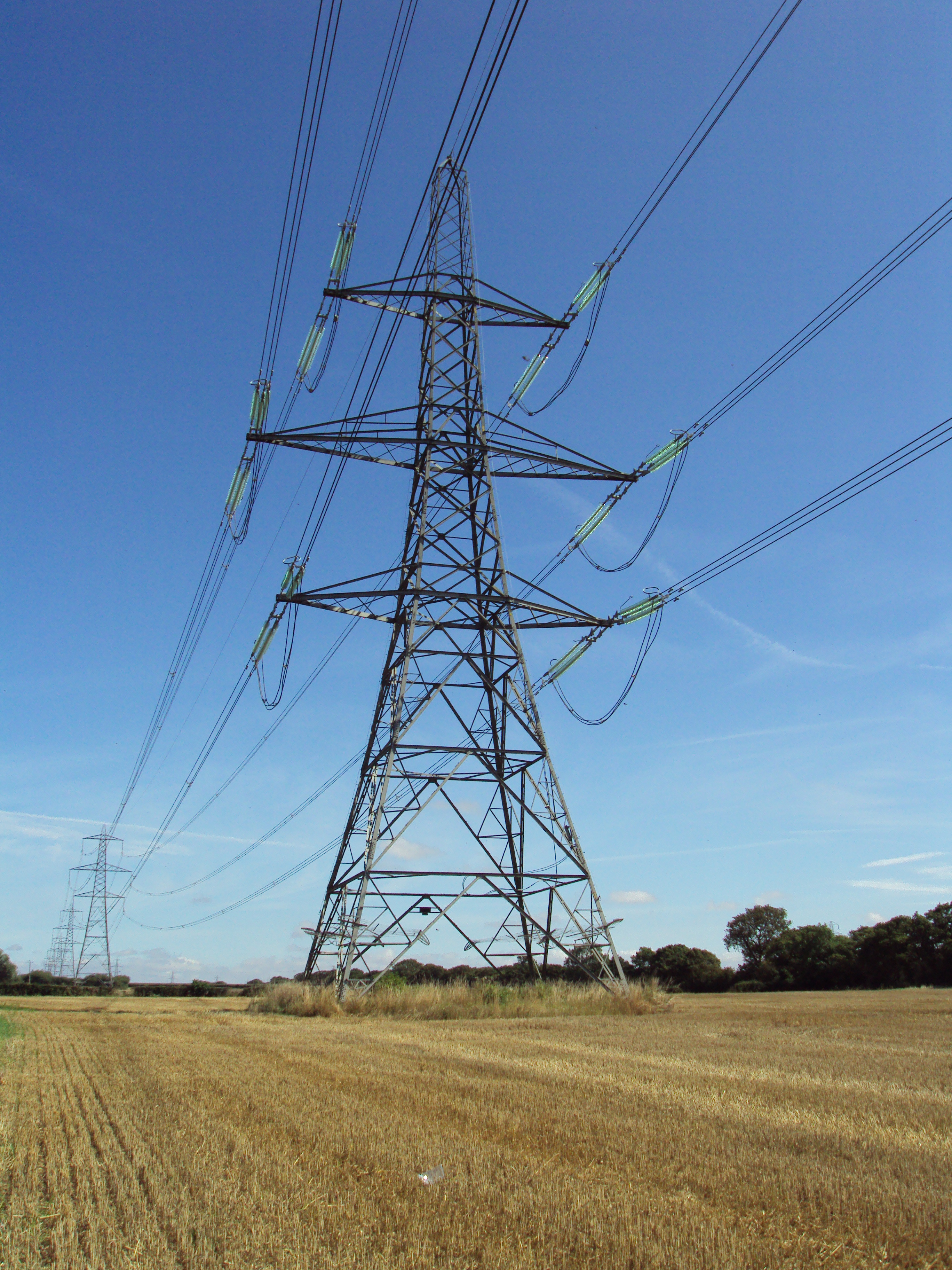 400kV double-circuit tension pylon on farmland near the Puddington-Shotwick public footpath, Cheshire, England. This line is part of the national "supergrid" on a section connecting Queensferry and Connah's Quay power stations in Flintshire, North Wales (across the River Dee) to Capenhurst 400kV/275kV/132kV substation, Wirral, Cheshire, England.